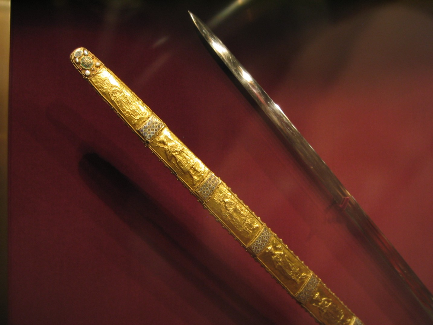 Imperial sword of the Holy Roman Empire in the treasury of the Hofburg in Vienna.